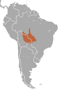 Black-tailed Marmoset (Mico melanurus) range